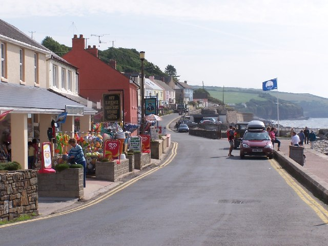 Amroth. The road through the village runs along the coast towards Pendine which is famous for its sands. This view along the coast is towards the eastern end of the village which marks the start (or end) of the 180 mile long Pembrokeshire Coastal Path.